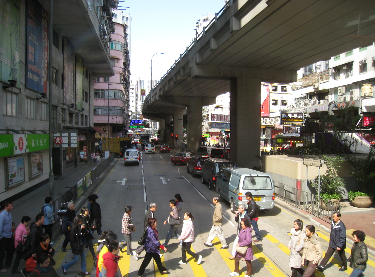 Prince Edward Road West 太子道西